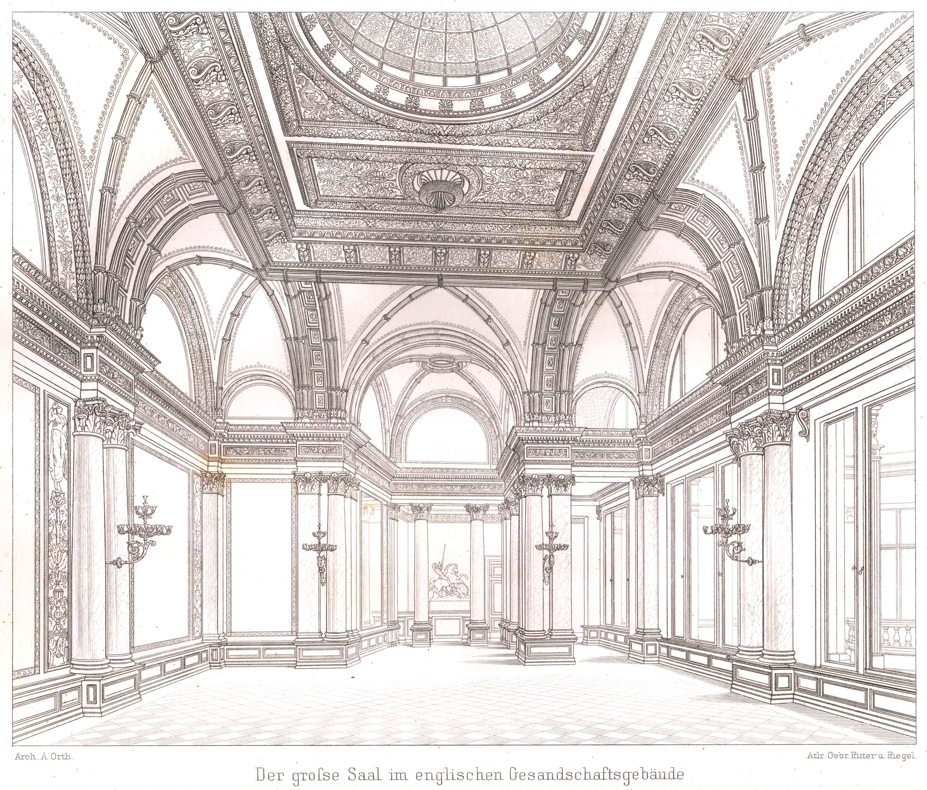 Berlin - Palais Strousberg/British embassy), ballroom